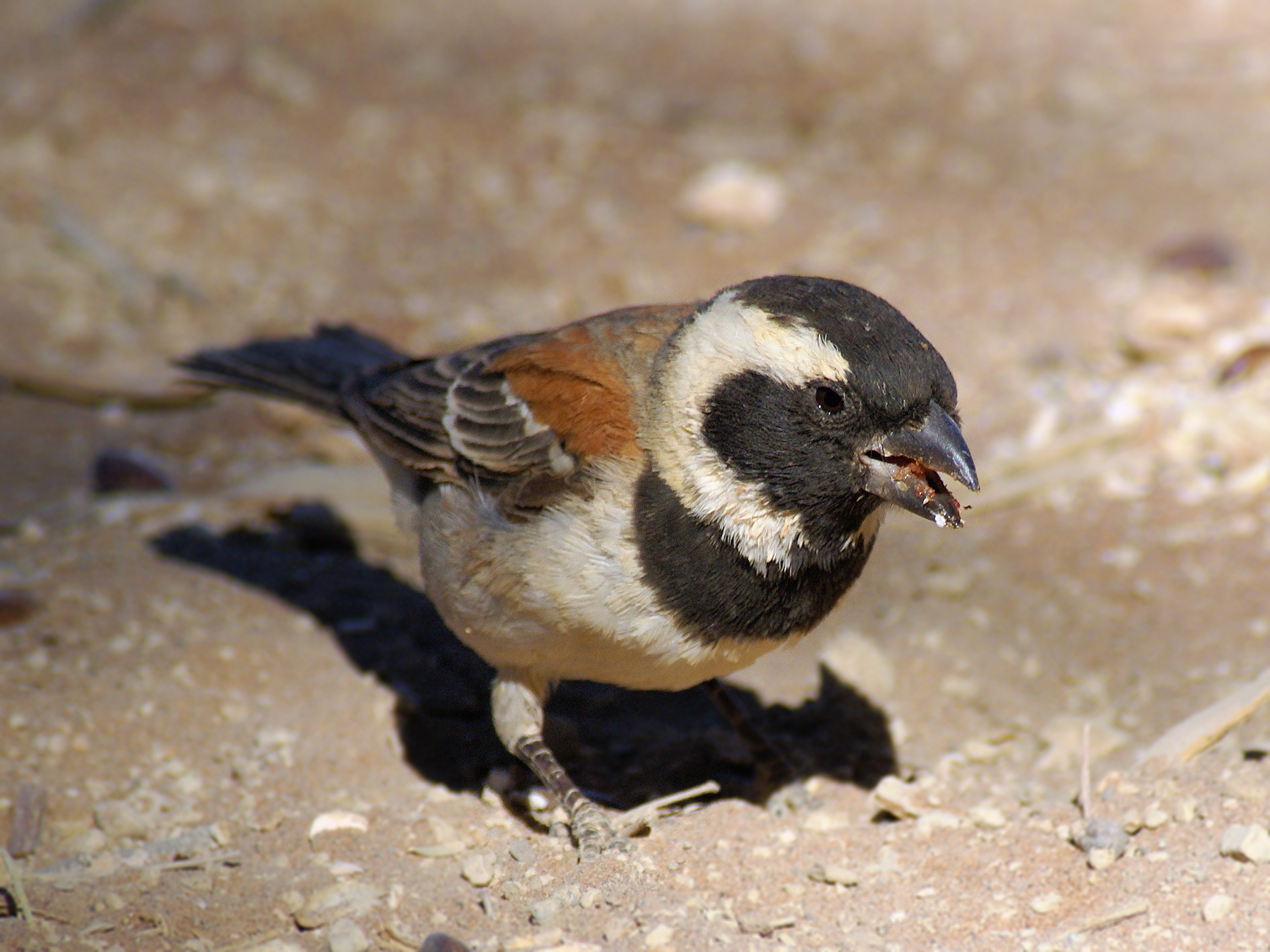 Male Cape Sparrow or Mossie of the subspecies damarensis, at Sossusvlei, Namib desert, Namibia.